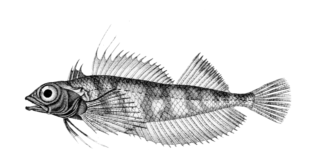 Tripterygion tripteronotum